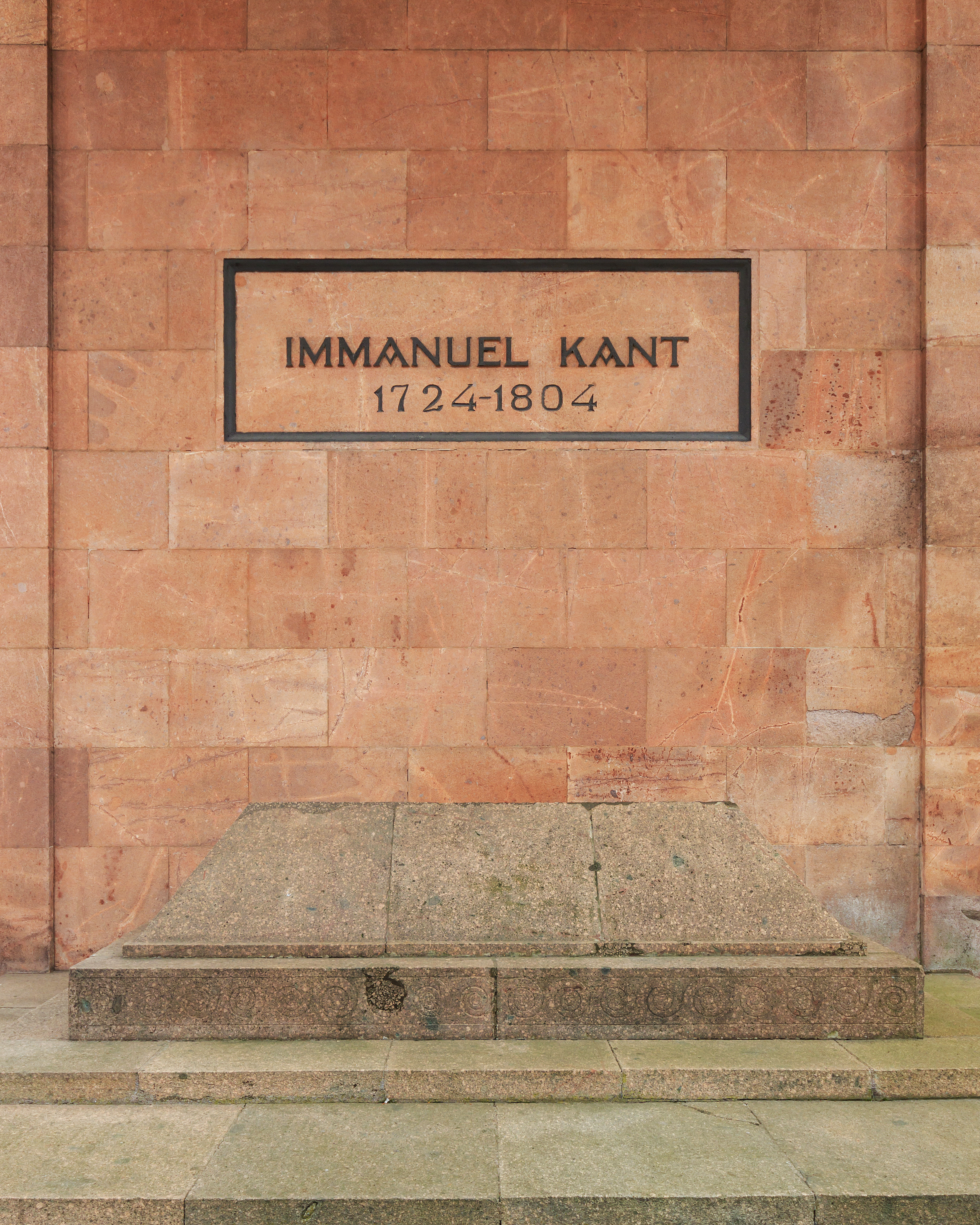 Tomb of Immanuel Kant at the historical Lutheran cathedral in Kaliningrad formerly Königsberg, Kaliningrad Oblast (Russia).